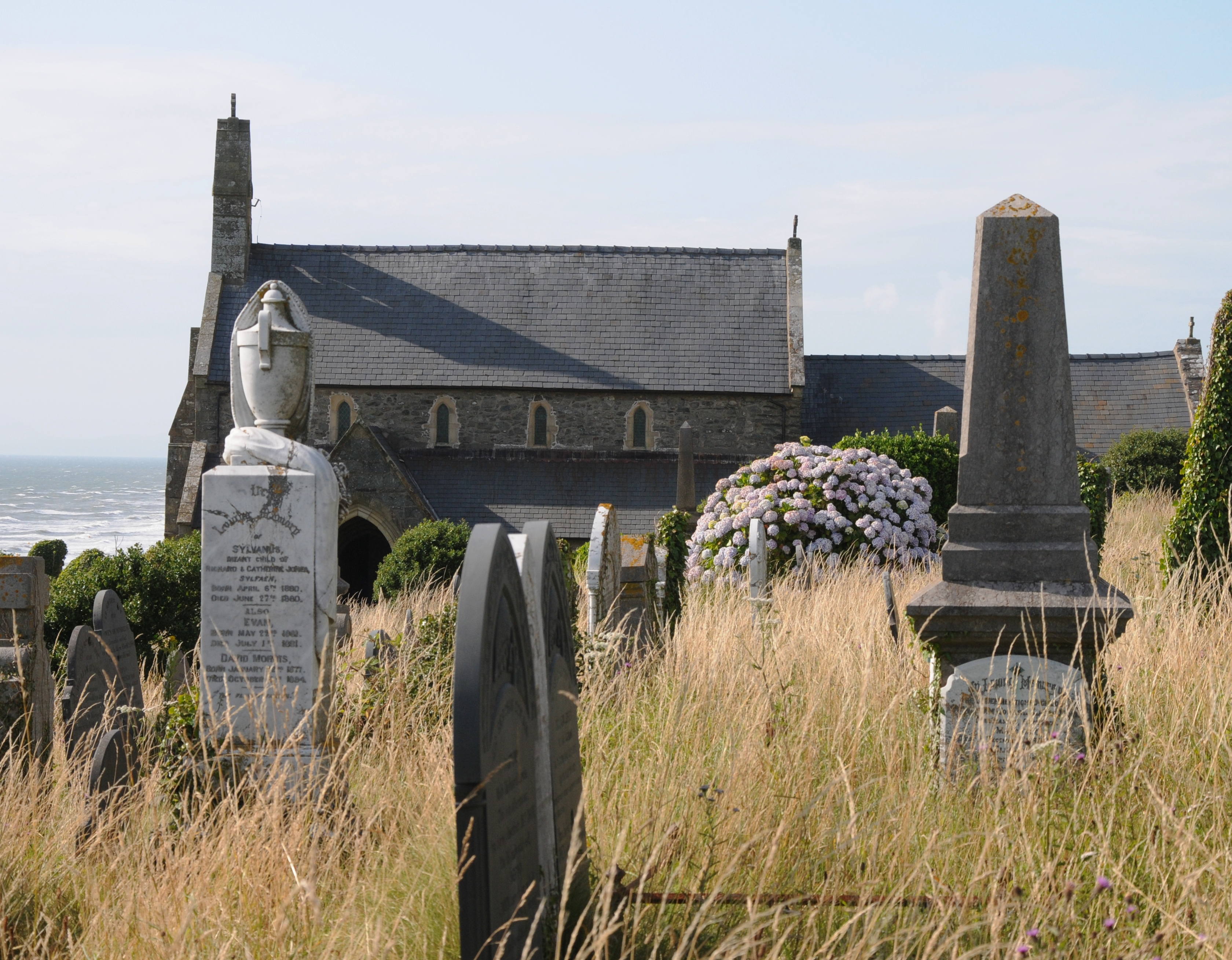 Norman Church St. Mary and Bodfan in Llanaber (Barmouth), Wales